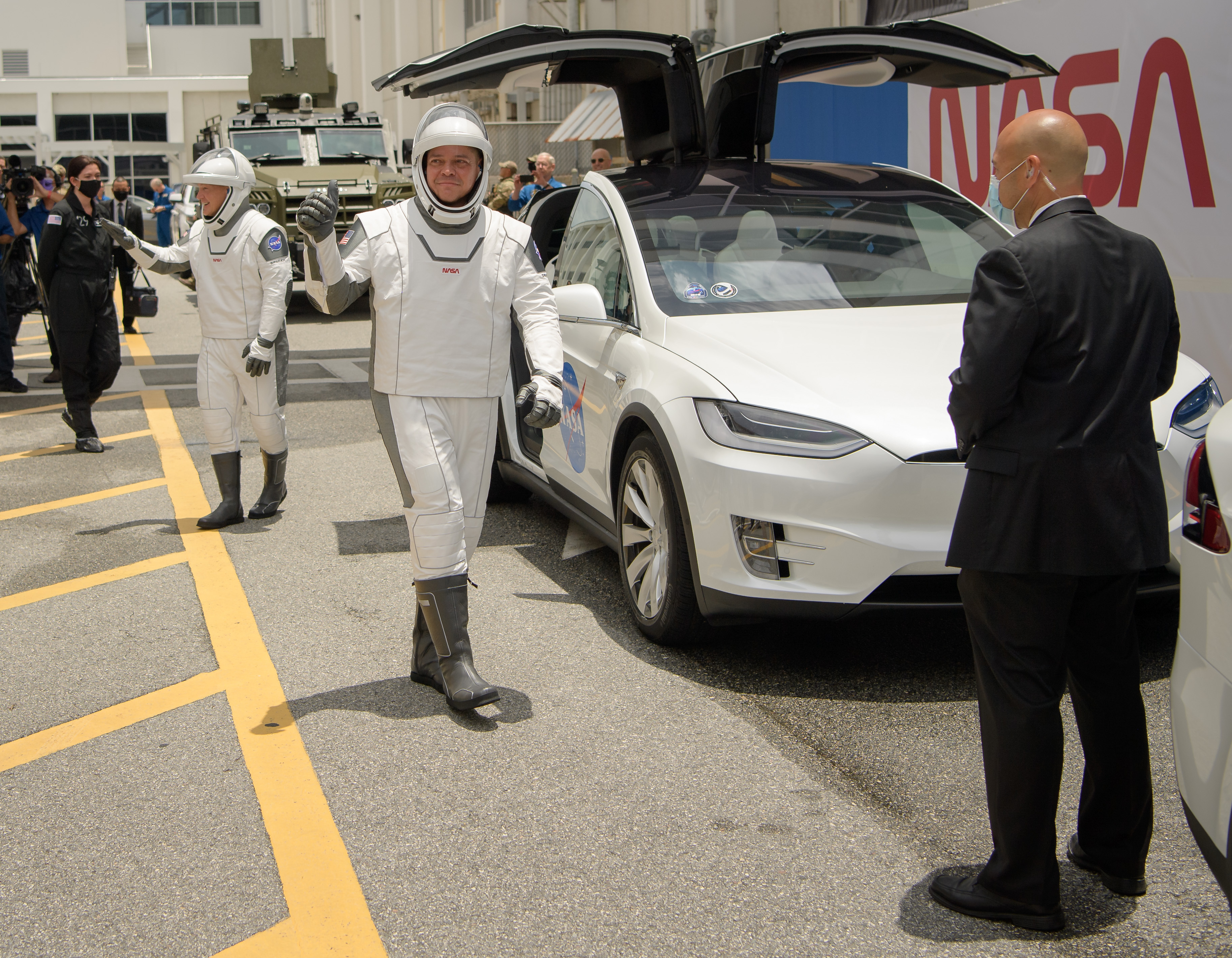 NASA astronauts Douglas Hurley, left, and Robert Behnken, wearing SpaceX spacesuits, are seen as they prepare to depart the Neil A. Armstrong Operations and Checkout Building for Launch Complex 39A to board the SpaceX Crew Dragon spacecraft for the Demo-2 mission launch, Wednesday, May 27, 2020, at NASA’s Kennedy Space Center in Florida. NASA’s SpaceX Demo-2 mission is the first launch with astronauts of the SpaceX Crew Dragon spacecraft and Falcon 9 rocket to the International Space Station as part of the agency’s Commercial Crew Program. The test flight serves as an end-to-end demonstration of SpaceX’s crew transportation system. Behnken and Hurley are scheduled to launch at 4:33 p.m. EDT on Wednesday, May 27, from Launch Complex 39A at the Kennedy Space Center. A new era of human spaceflight is set to begin as American astronauts once again launch on an American rocket from American soil to low-Earth orbit for the first time since the conclusion of the Space Shuttle Program in 2011. Photo Credit: (NASA/Bill Ingalls)